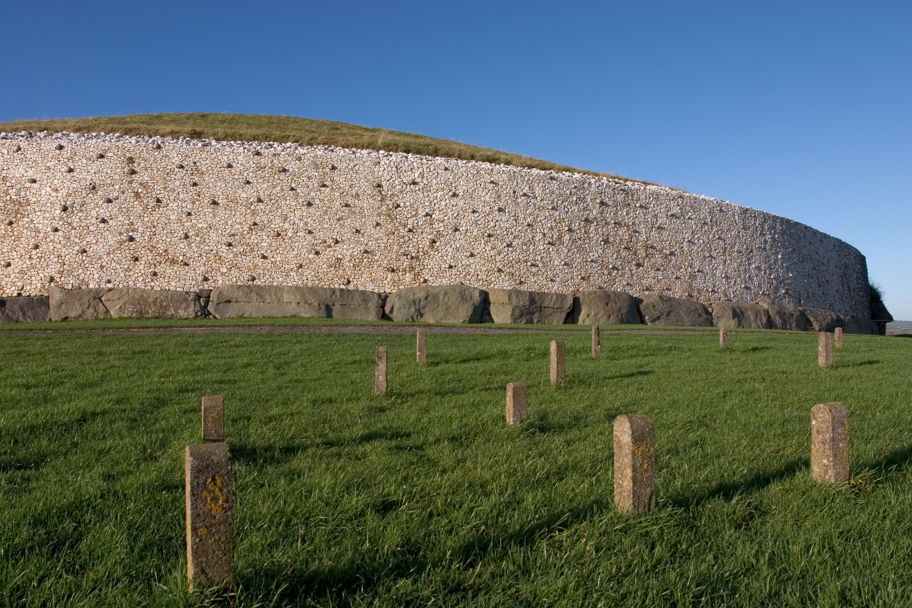 Stakes around the Newgrange burial chamber. County Meath, Ireland.Newgrange burial chamber